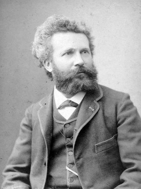 French astronomer Camille Flammarion (1842-1925) photographed by Eugène Pirou (1841-1909).